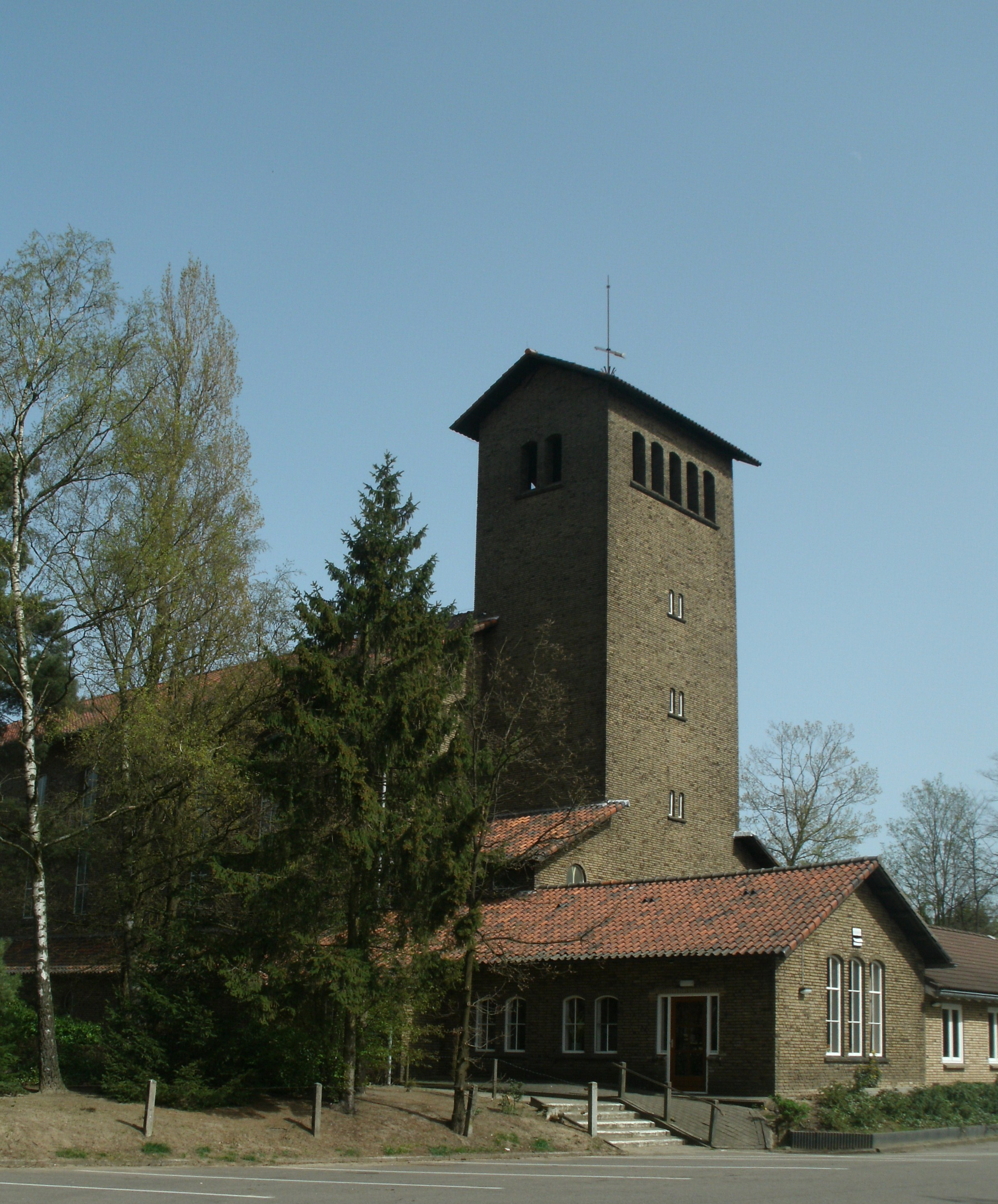 Beatrix church Ede, Netherlands